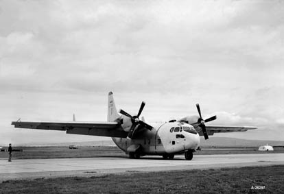 The U.S. Air Force Stroukoff Aircraft Corportaion YC-134 (s/n 52-1627), in 1956. A standard Fairchild C-123B Provider was fitted with two 3,500 hp (2,600 kW) Wright Turbo Compound R3350-89A radial engines, turning four-blade, thirteen foot Aeroproducts constant-speed fully-feathering propellers, a boundary layer control system, tailplane endplates, redesigned landing gear with tandem mainwheels. Later it was designated YC-134A when fitted with a "Pantobase" landing gear. It was cancelled in favour of the Lockheed C-130.